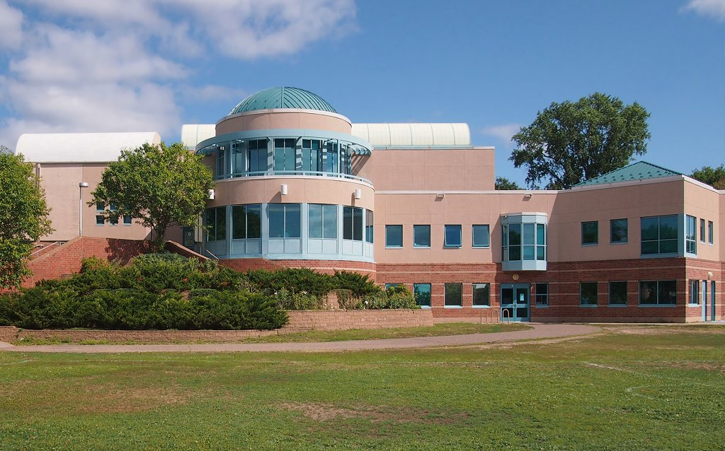 Hillcrest Recreation Center, 1978 Ford Pkwy, St Paul, Minnesota, USA. Viewed from the west.